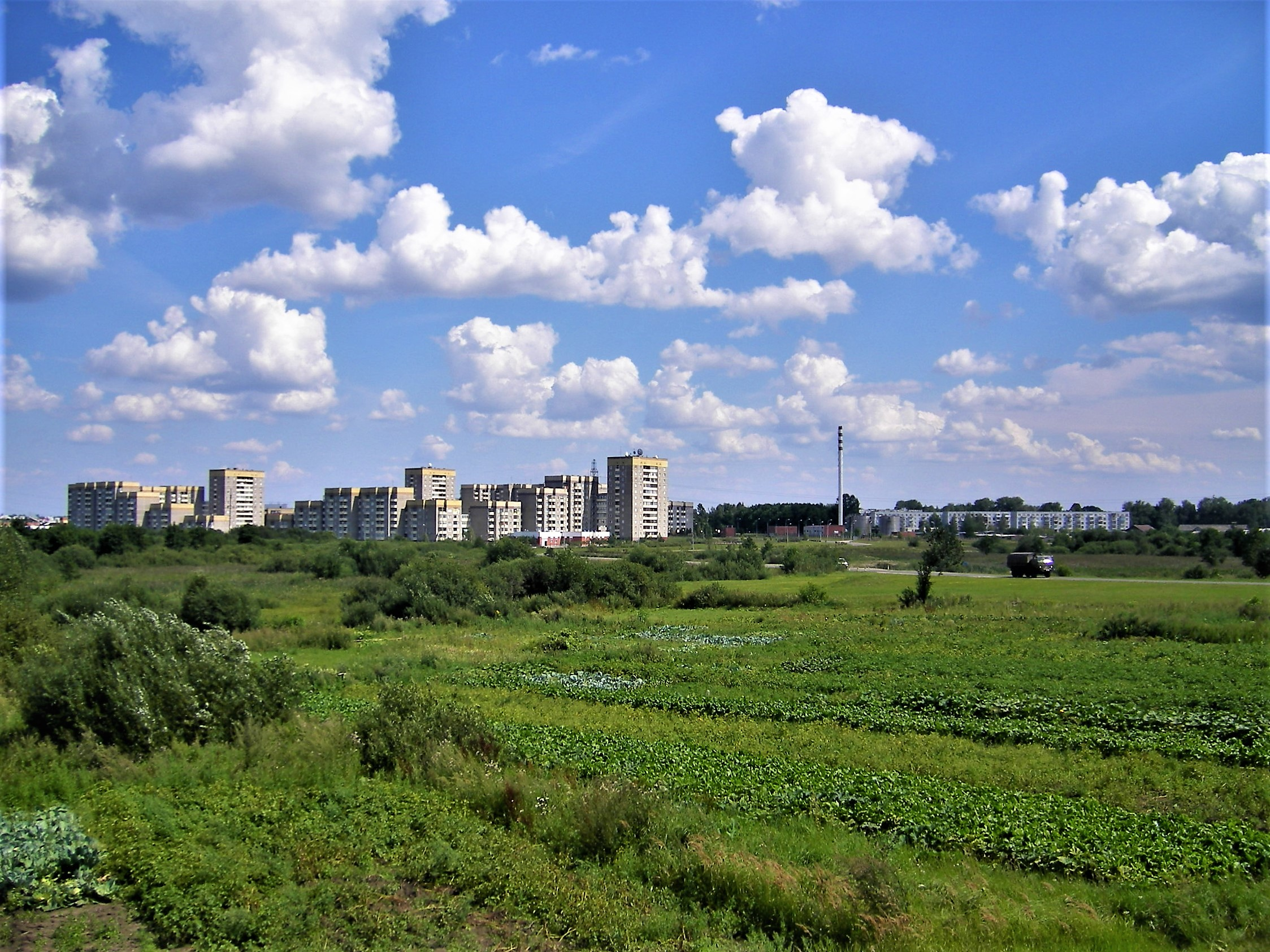 Southern part of Lida (Belarus), Yuhznyy Gorodok